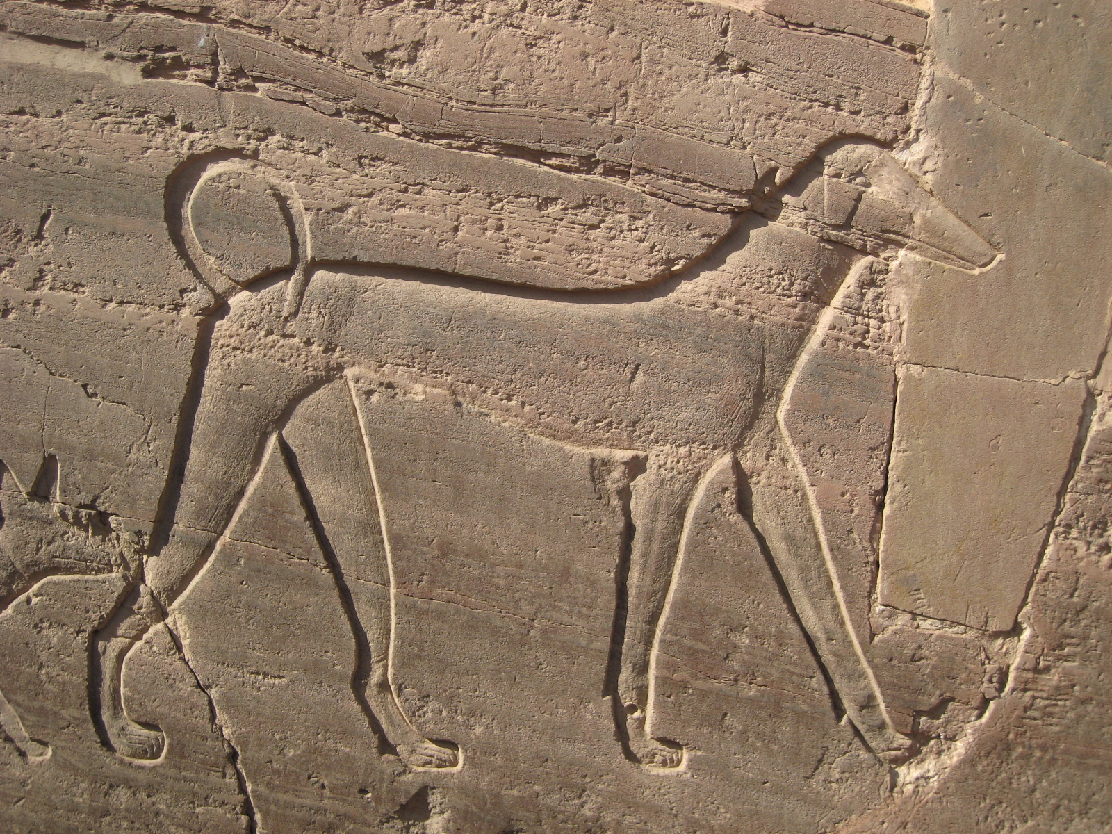 Qubbet el-Hawa IMG_6415